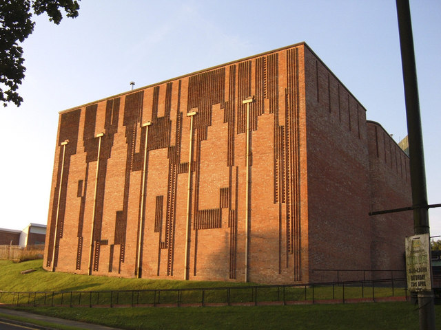 St Bride's Church, East Kilbride The rising summer sun emphasises the designs on the wall. These are not obvious at other times of day.